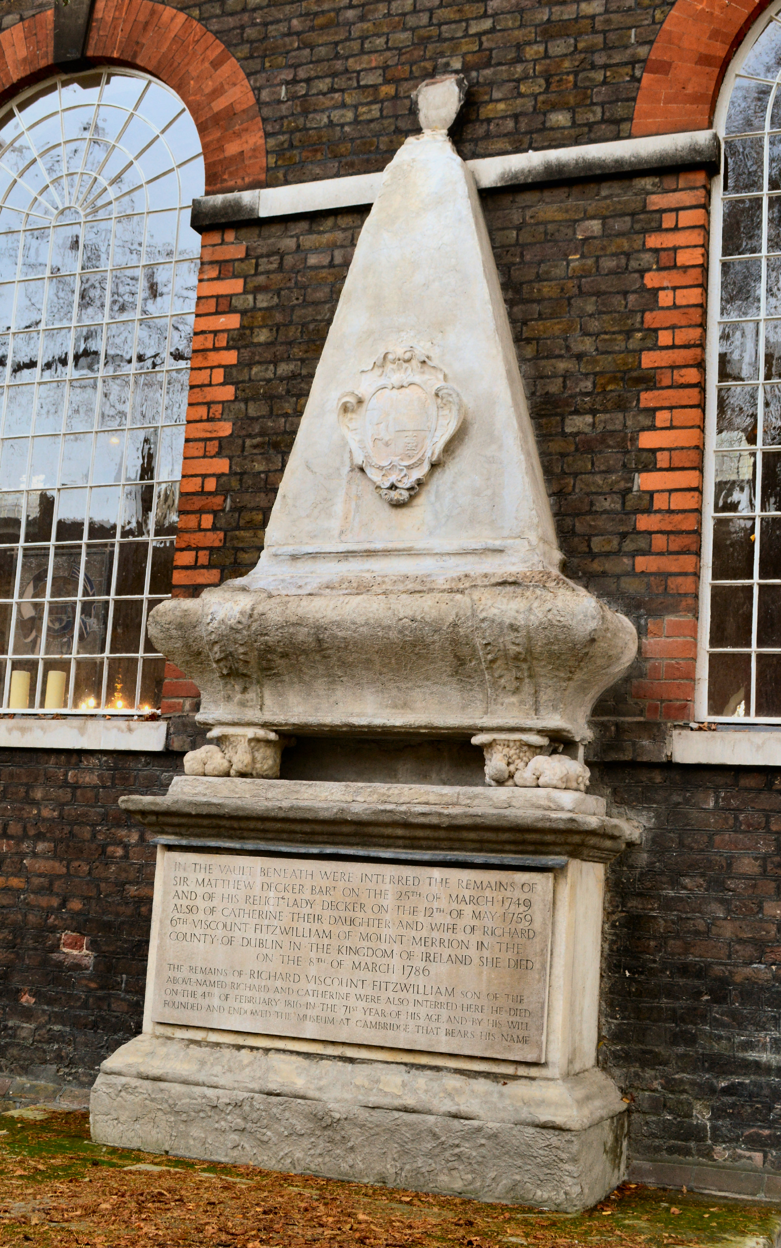 St Mary Magdalene's Church, Richmond, Surrey. Memorial to Sir Matthew Decker, 1st Baronet (d. 1749), of Richmond Green, a merchant and writer on trade who was High Sheriff of Surrey in 1729 and to his grandson Richard FitzWilliam, 7th Viscount FitzWilliam (d. 1816), founder of the Fitzwilliam Museum in Cambridge. Arms of Decker: Argent, a demi-buck gules between his forelegs an arrow erected in pale or ( Thomas Wotton, The English Baronetage Containing a Genealogical and Historical ..., Volume 4, 1741[1]) impaling Watkins Azure, a fess vair between three leopard's faces jessant-de-lys or, the arms of Rev. Richard Watkins, Rector of Whichford, Warwickshire, whose daughter Henrietta Watkins married Sir Matthew Decker, 1st Baronet. Listed in Burkes General Armory, 1884, as arms of Watkins of Badby House, Northamptonshire. Modern inscription on a tablet of stone superimposed on the base of the monument, possibly a restoration (perhaps placed here by the FitzWilliam Museum?): "In the vault beneath were interred the remains of Sir Matthew Decker Bart. on the 25th of March 1749 and of his relict Lady Decker on the 12th of May 1759. Also of Catherine their daughter and wife of Richard 6th Viscount FitzWilliam of Mount Merrion in the County of Dublin in the Kingdom of Ireland. She died on the 8th of March 1786. The remains of Richard Viscount FitzWilliam son of the above-named Richard and Catherine were also interred here. He died on the 4th of February 1816 in the 71st year of his age and by his will founded and endowed the museum at Cambridge that bears his name"